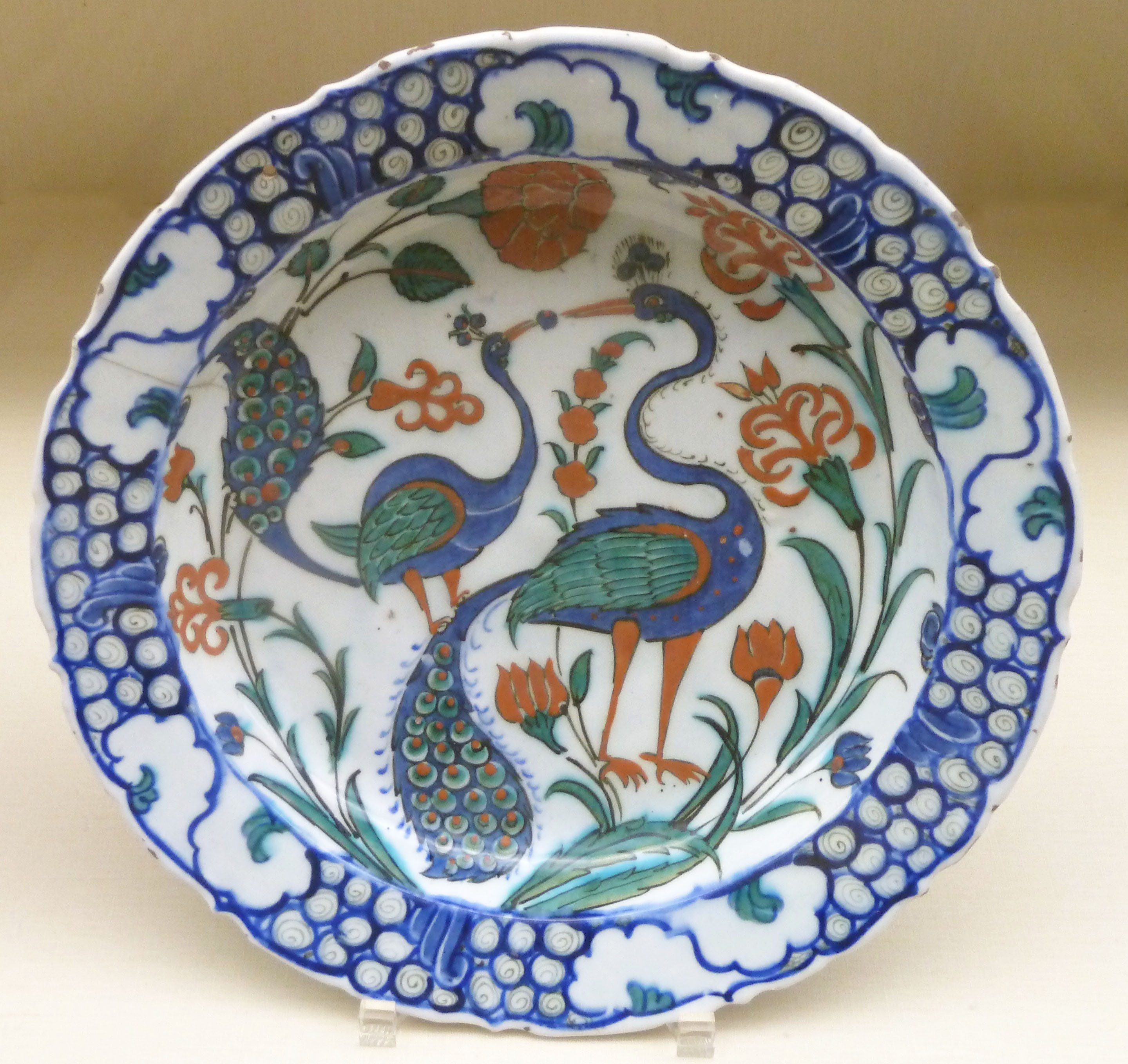 Iznik, Turkey, dish with animal decorations